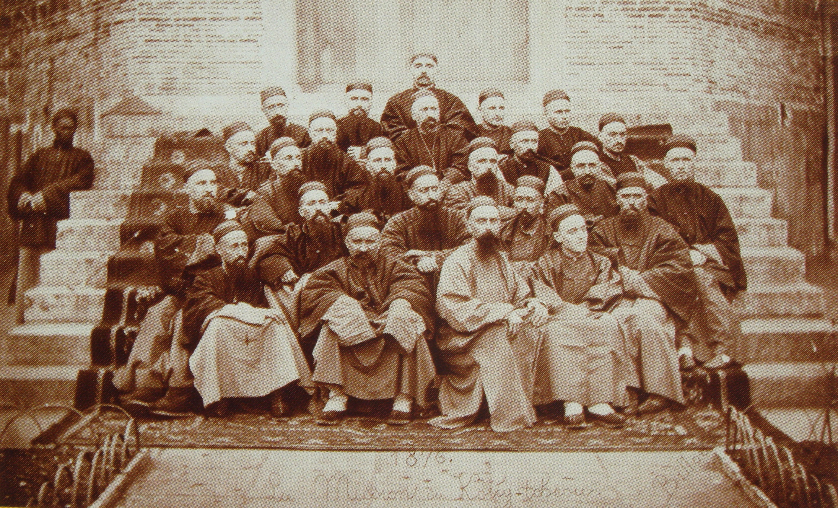 Kouy-Tcheou_Mission_1876